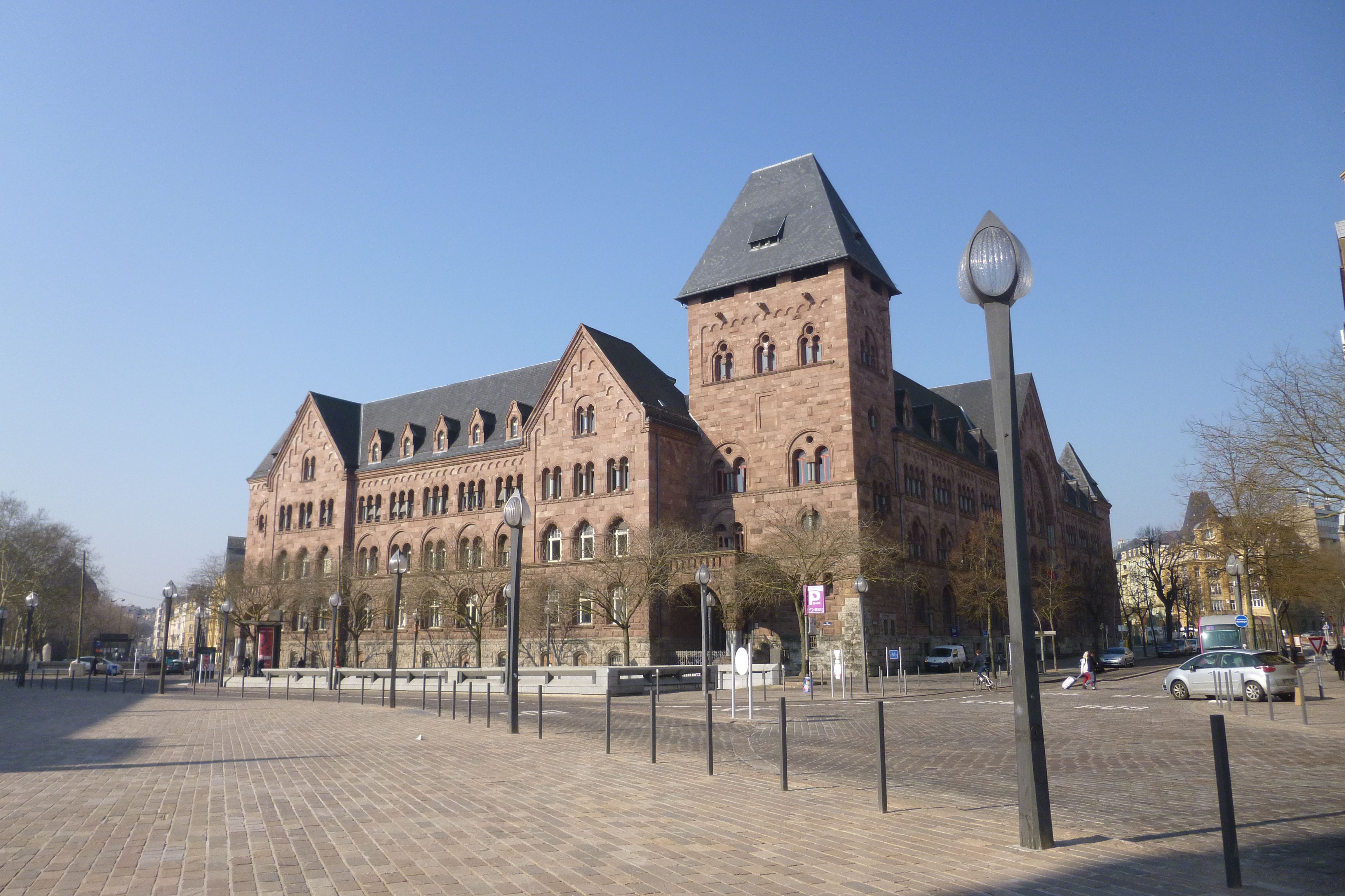 Post centre of Metz, Moselle (France)